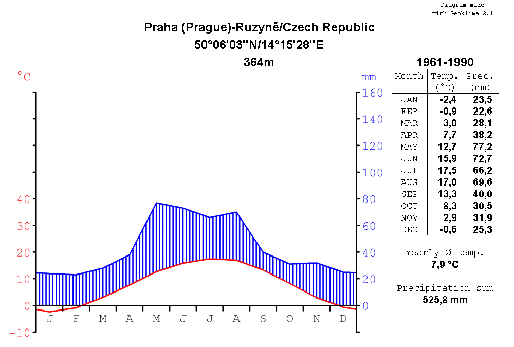 climate chart of Prague-Ruzyně, Czech Republic, for the period of time from 1961 to 1990, in the format by Walter and Lieth, metric, °Celsius and millimeters, chart made with Geoklima 2.1, label in English